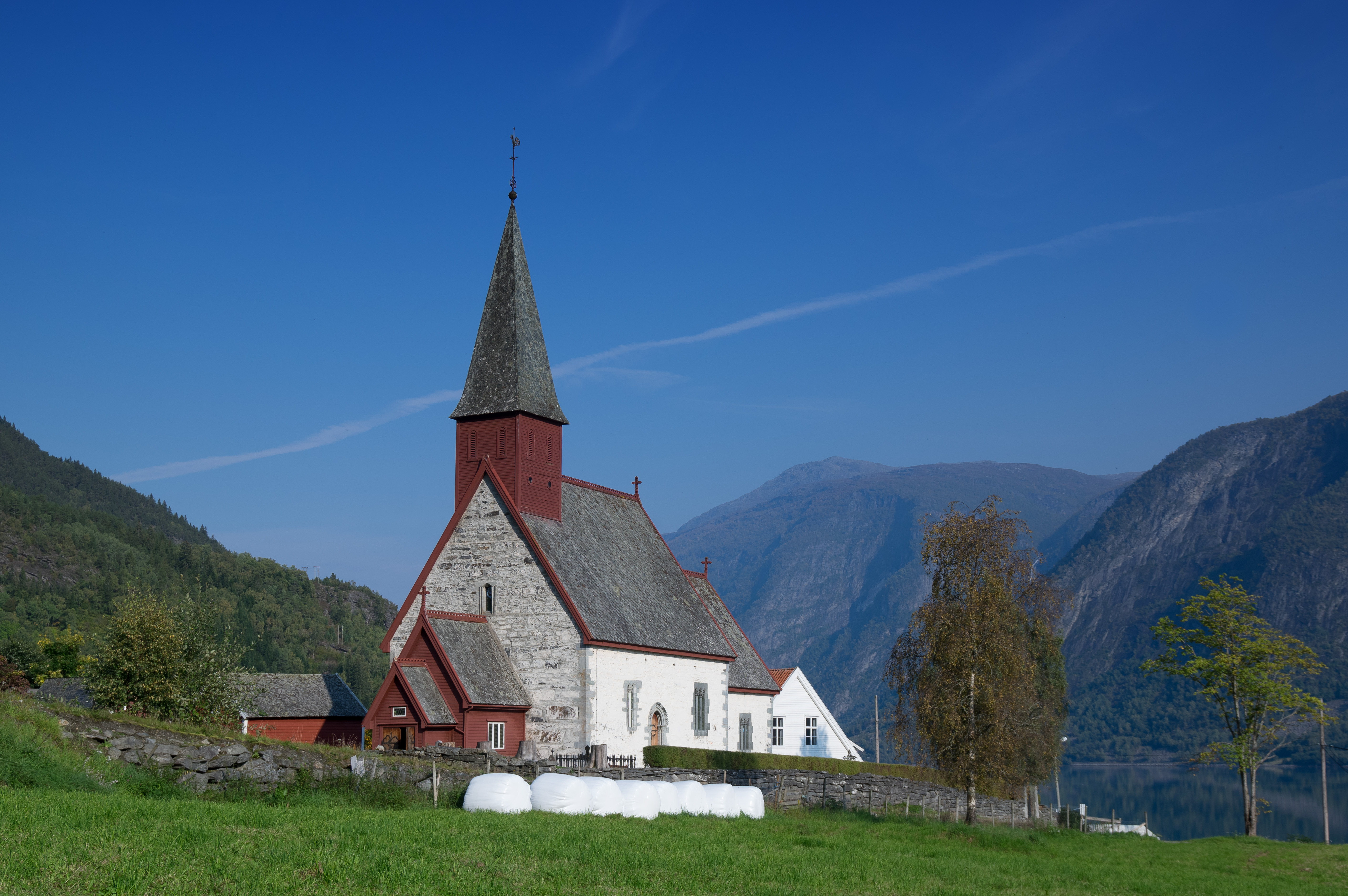 Dale kirke in Luster, Norway.